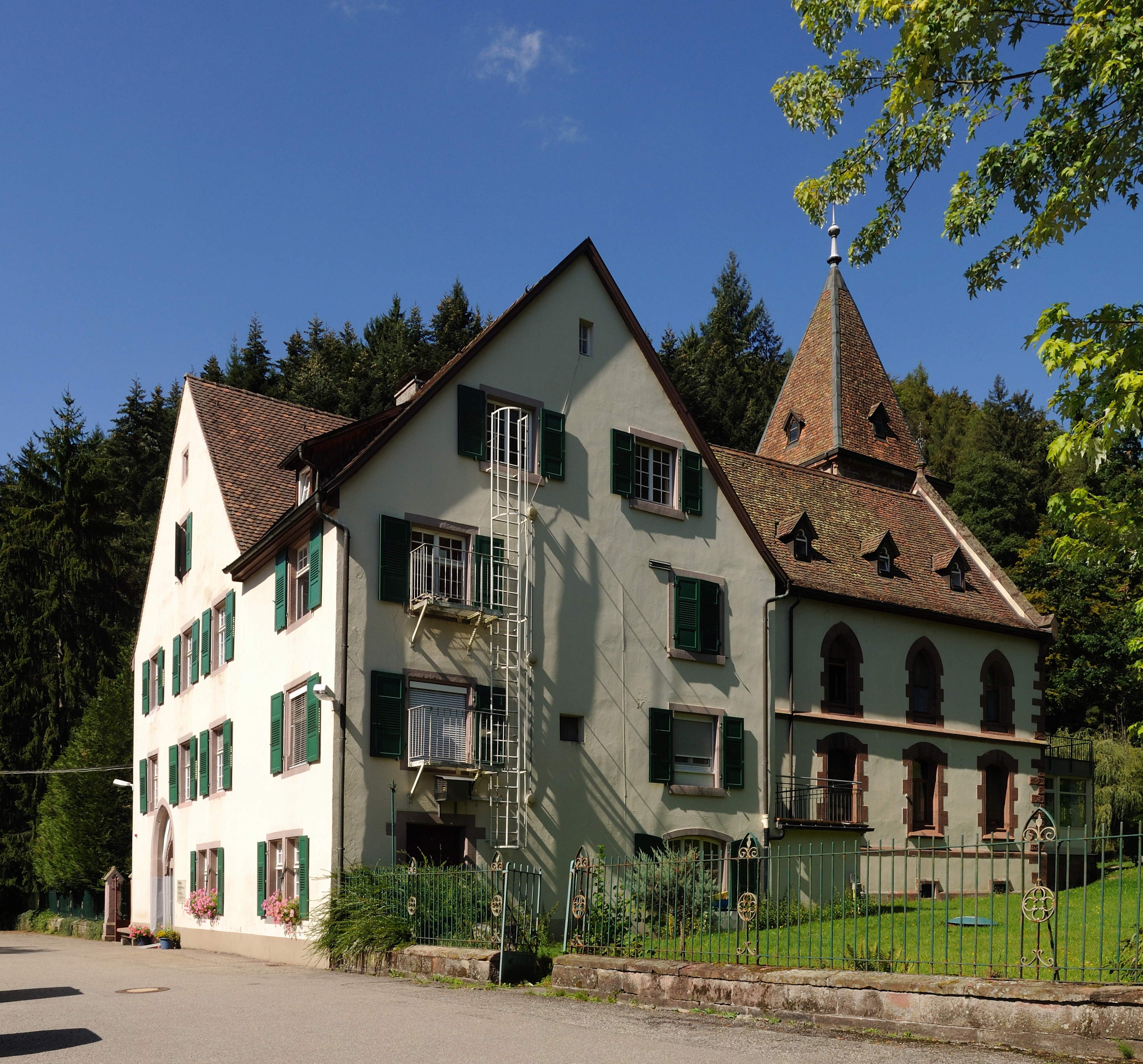 Steinen: Abbey Weitenau (today: clinic)